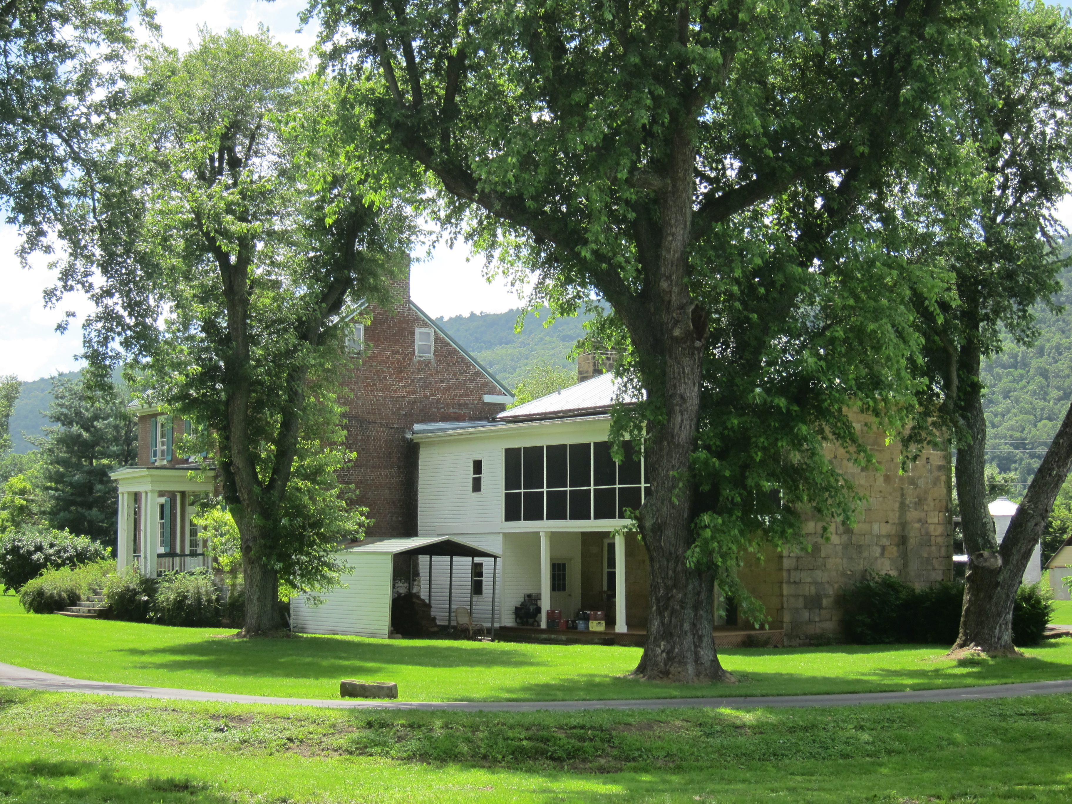 Wappocomo is a late 18th-century Georgian mansion overlooking the South Branch Potomac River north of Romney in the U.S. state of West Virginia. It is situated along West Virginia Route 28 and the South Branch Valley Railroad (SBVR). The train station for the Potomac Eagle Scenic Railroad heritage railroad is located on the SBVR at Wappocomo. Photographed on 14 July 2013.